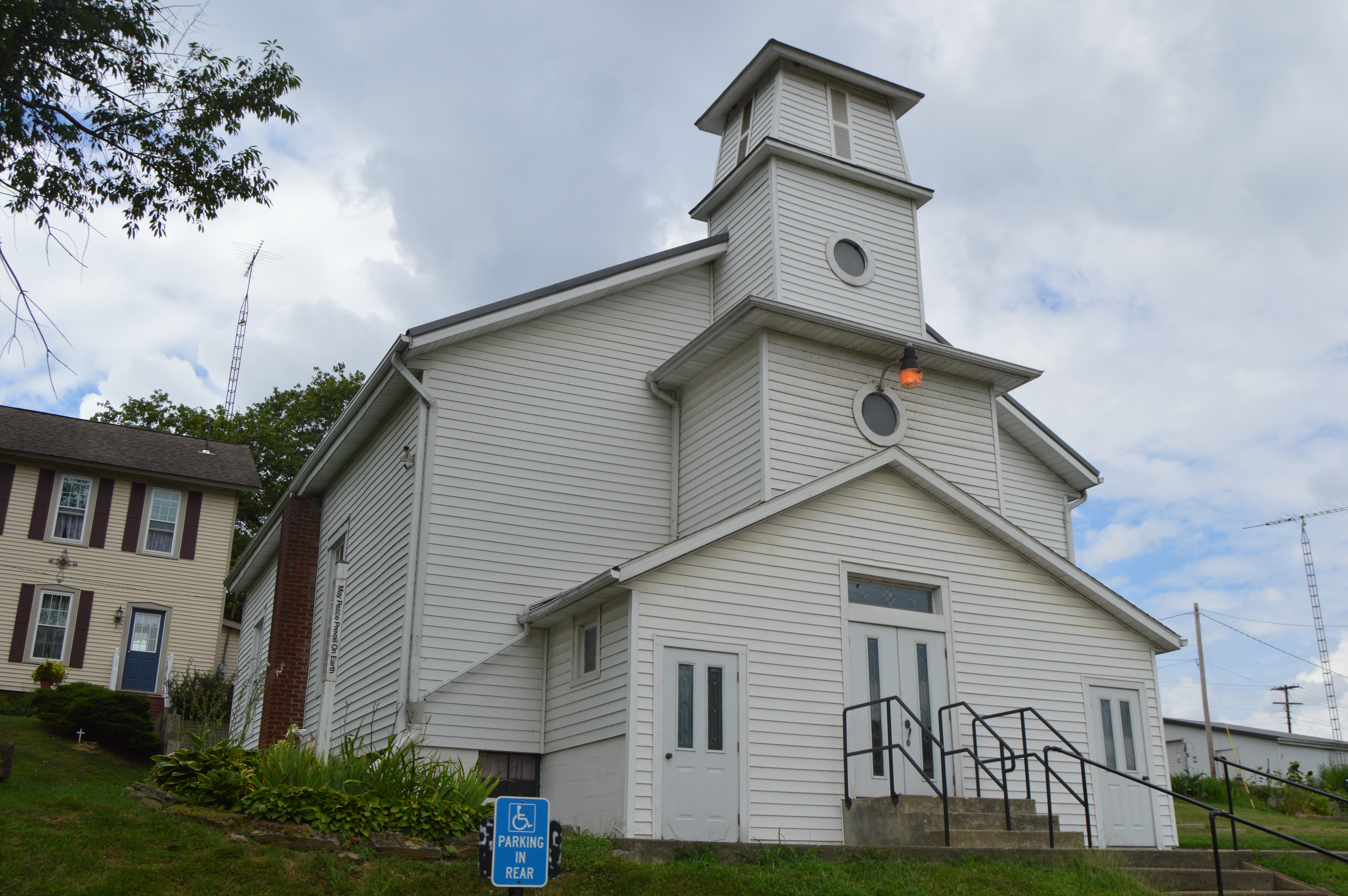 Front and southern side of the Perryton United Methodist Church, located at 6139 Licking Valley Road in Perryton in Perry Township, Licking County, Ohio, United States. It was built in 1844, although numerous modifications have been made since then.